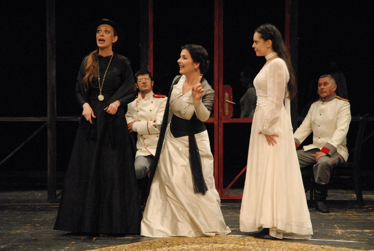 "Three Sisters", play by the Russian author and playwright Anton Chekhov; directed by Radoslav Milenković Drama of th SNT, Novi Sad, 2008/09; Draginja Voganjac, Gordana Jošić Gajin, Jovana Mišković, behind-Milovan Filipović, Miroslav Fabri Srpski (latinica): "Tri sestre", drama ruskog pisca Antona Čehova; reditelj Radoslav Milenković, Drama SNP-a, Novi Sad, 2008/09; Draginja Voganjac, Gordana Jošić Gajin, Jovana Mišković, iza-Milovan Filipović, Miroslav Fabri Српски (ћирилица): "Три сестре", драма руског писца Антона Чехова; редитељ Радослав Миленковић, Драма СНП-а, Нови Сад, 2008/09; Драгиња Вогањац, Гордана Јошић Гајин, Јована Мишковић, иза-Милован Филиповић, Мирослав Фабри